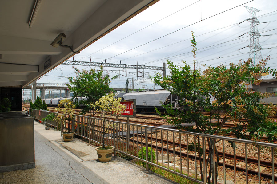 TaiChung Port Station is a local train station of Taiwan's Western main rail line. It's located within the boundary of CingShuei Town, TaiChung County. This photo shows the cargo yards of the station, with grain hoppers parking on the rails.